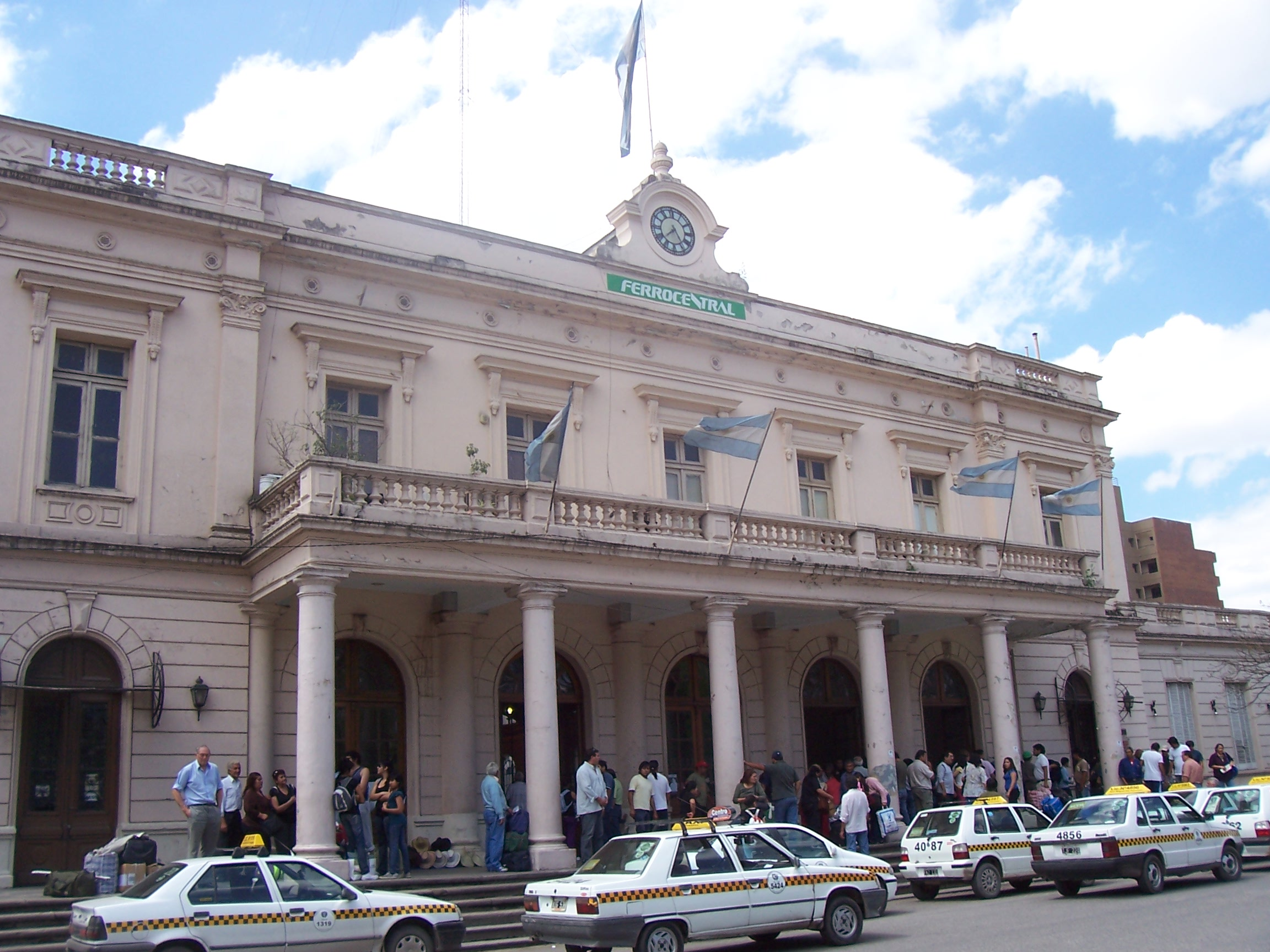 Ferrocentral S.A. Railway Station in San Miguel de Tucumán, Argentina